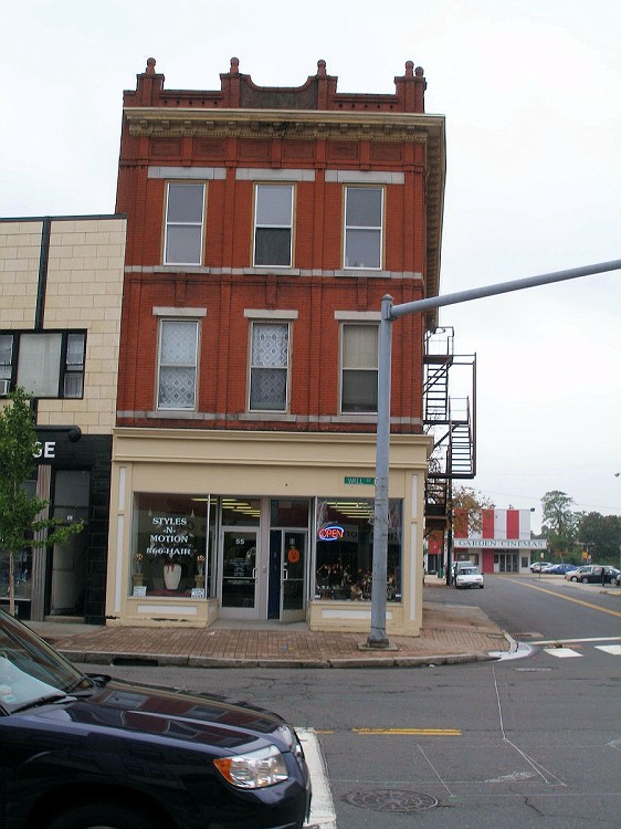 Building at Wall and Issacs Streets in Norwalk, Connecticut; part of the Wall Street Historic District.